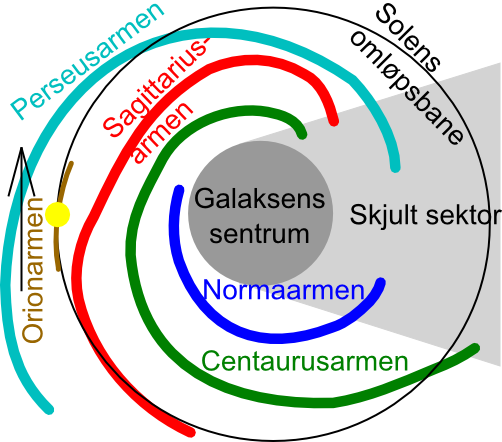 → Milky Way Spiral Arm (other versions)